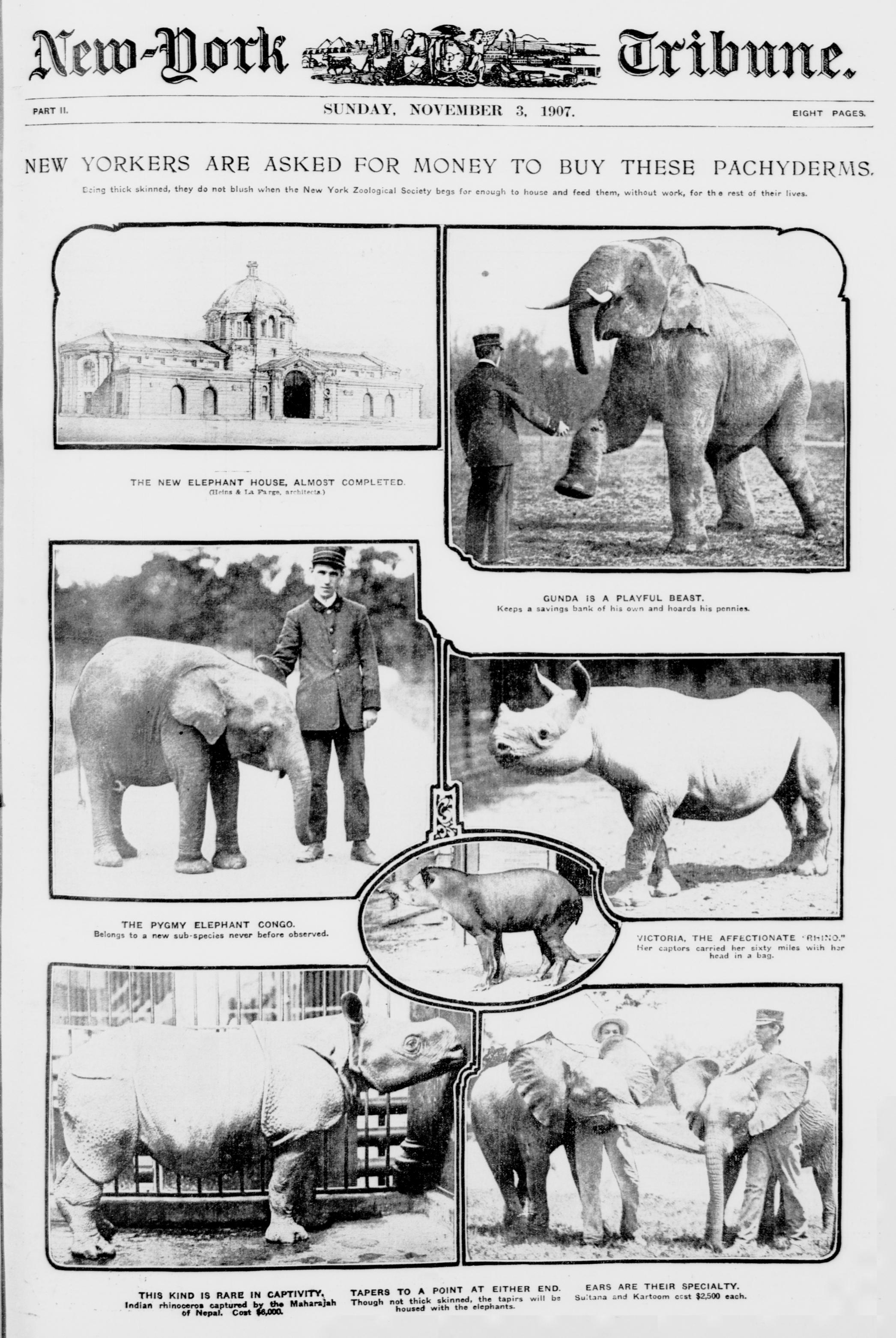 New-York tribune. (New York [N.Y.]) 1866-1924 November 3, 1907, Image 17 Notes: Cover, illustrated supplement. Format: Newspaper page, from microfilm Rights Info: No known restrictions on reproduction. Repository: Library of Congress, Serial and Government Publications Division, Washington, D.C. 20540 USA. Part Of: Chronicling America (Library of Congress) (DLC) - Persistent URL: More information about the Chronicling America Web site is available at